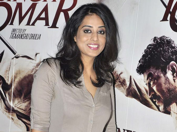 Mahi Gill At Paan Singh Tomaar